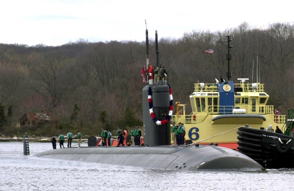 030423-N-0000S-001 Naval Submarine Base New London, Groton, Connecticut (en:23 April, en:2003) -- The Los Angeles class submarine USS San Juan (SSN-751) is assisted into its berth at NSB New London after returning from an extended deployment in support of Operation Iraqi Freedom. Operation Iraqi Freedom is the multi-national coalition effort to liberate the Iraqi people, eliminate Iraq's weapons of mass destruction and end the regime of Saddam Hussein. U.S. Navy photo by Journalist 1st Class Mark Savage. (RELEASED)